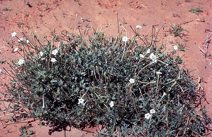 Angel's Trumpets. Plant. Midland, TX, USA.